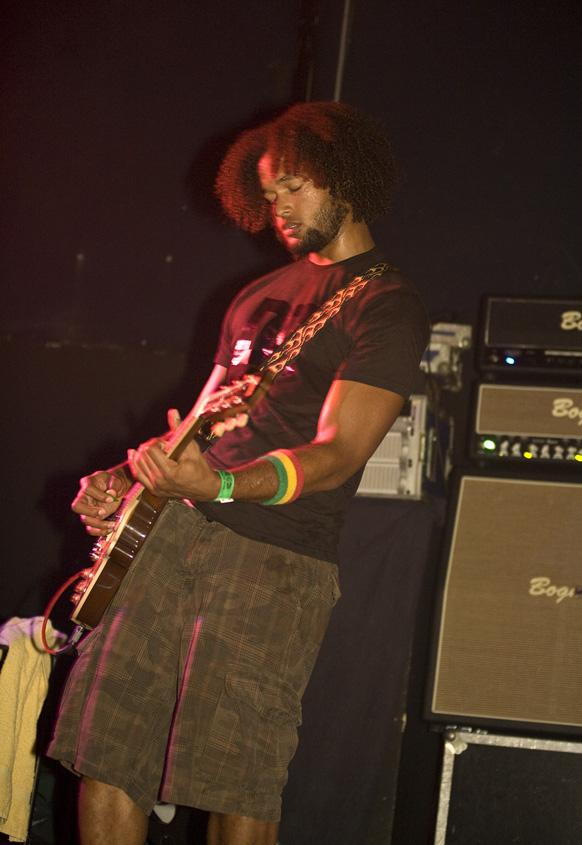 Antillean/Dutch guitar player Jacob Streefkerk of Intwine performing at the Köln Underground concert on August 14th, 2009.